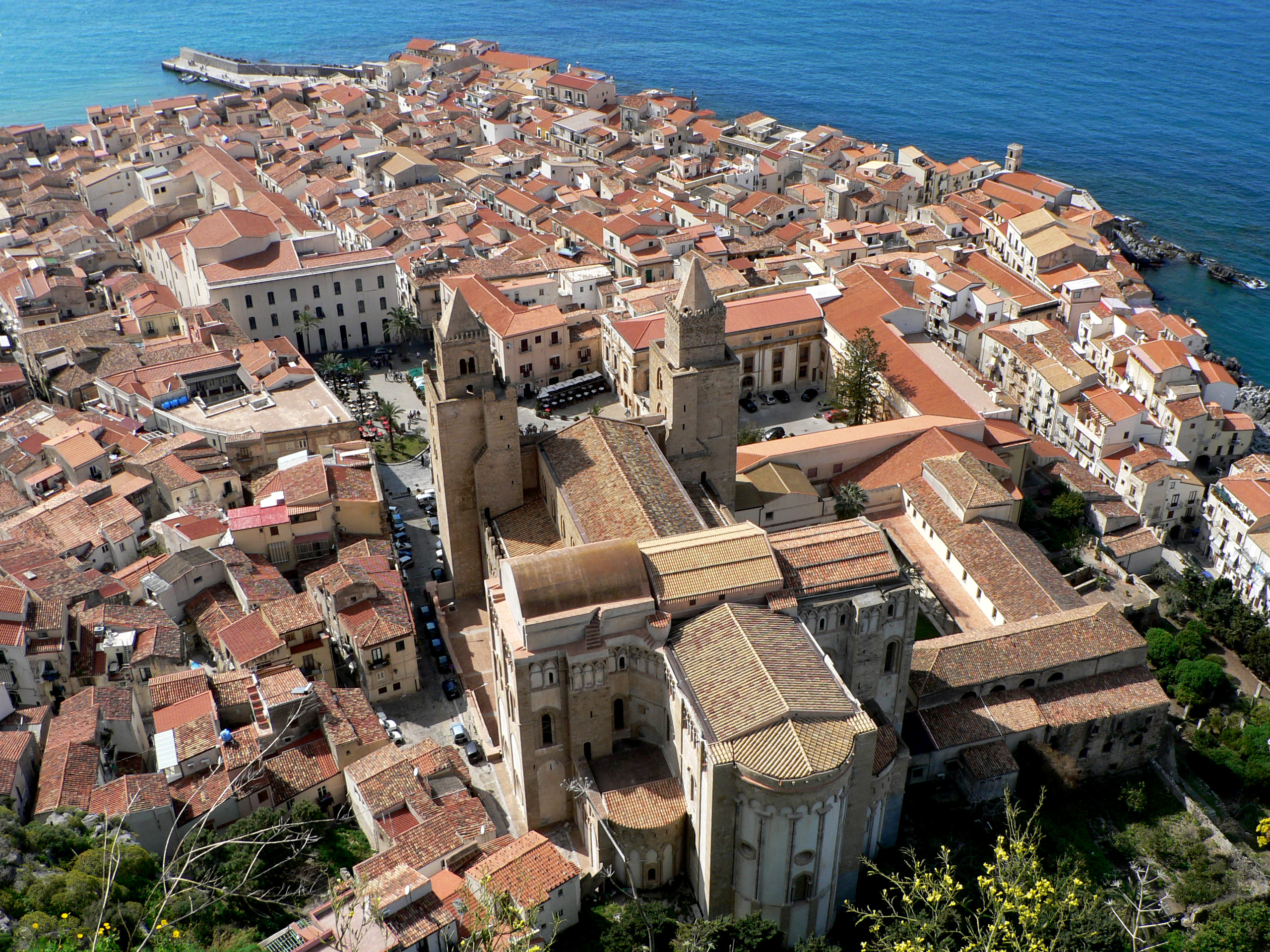 View of Cefalù (Sicily).